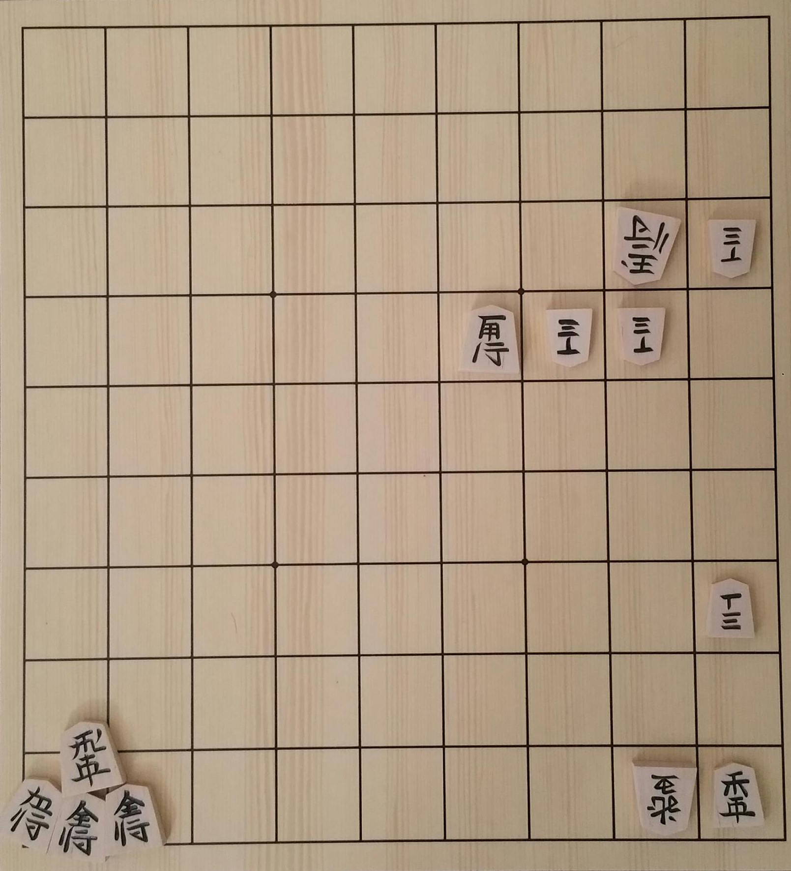 Shogi board with the other style of characters used on the pieces. Shows a ７手 (7-move) 詰将棋 tsume (mate) problem. White (後手) has pawns (歩) on 1c (１三), 2d (２四), 3d (３四); their king (玉) on 2c (２三); and a promoted rook (龍) on 2i (２九). Black (先手) has a bishop (角) on 4d (４四), a pawn (歩) on 1g (１七), a lance (香) on 1i (１九), and their pieces in hand (持ち駒) are a rook (飛) , two golds (金), and a silver (銀).